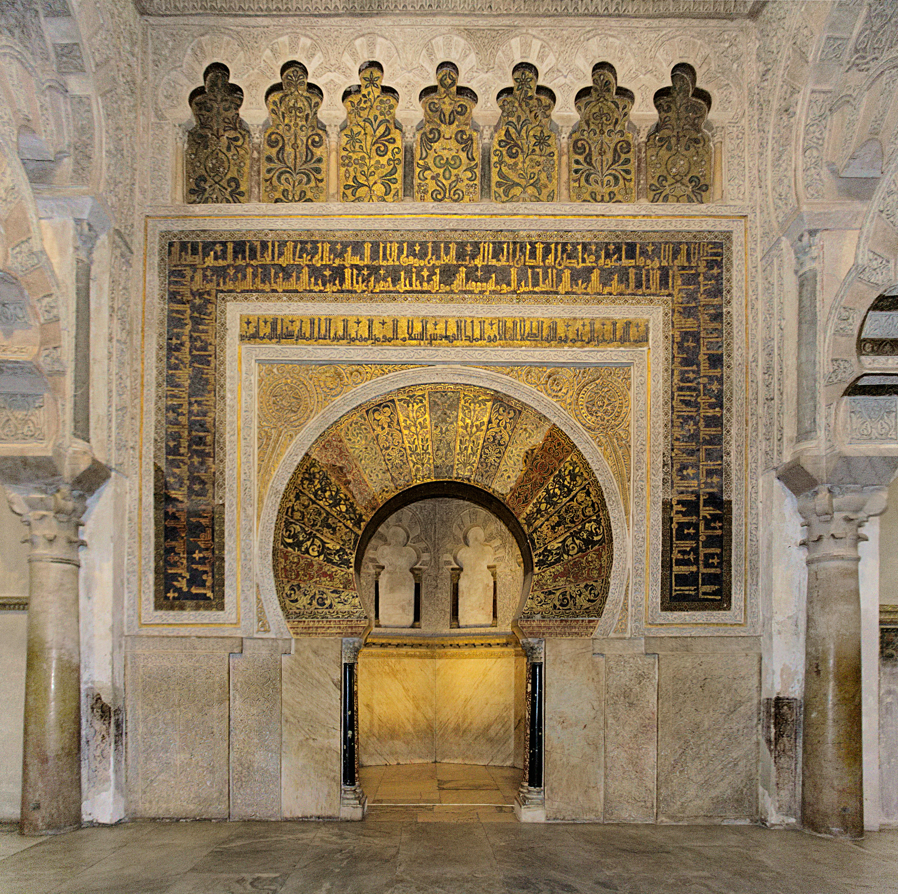 Mihrab of Mezquita de Cordoba